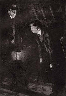 "The Sign of Four" illustrated by F.H. Townsend.